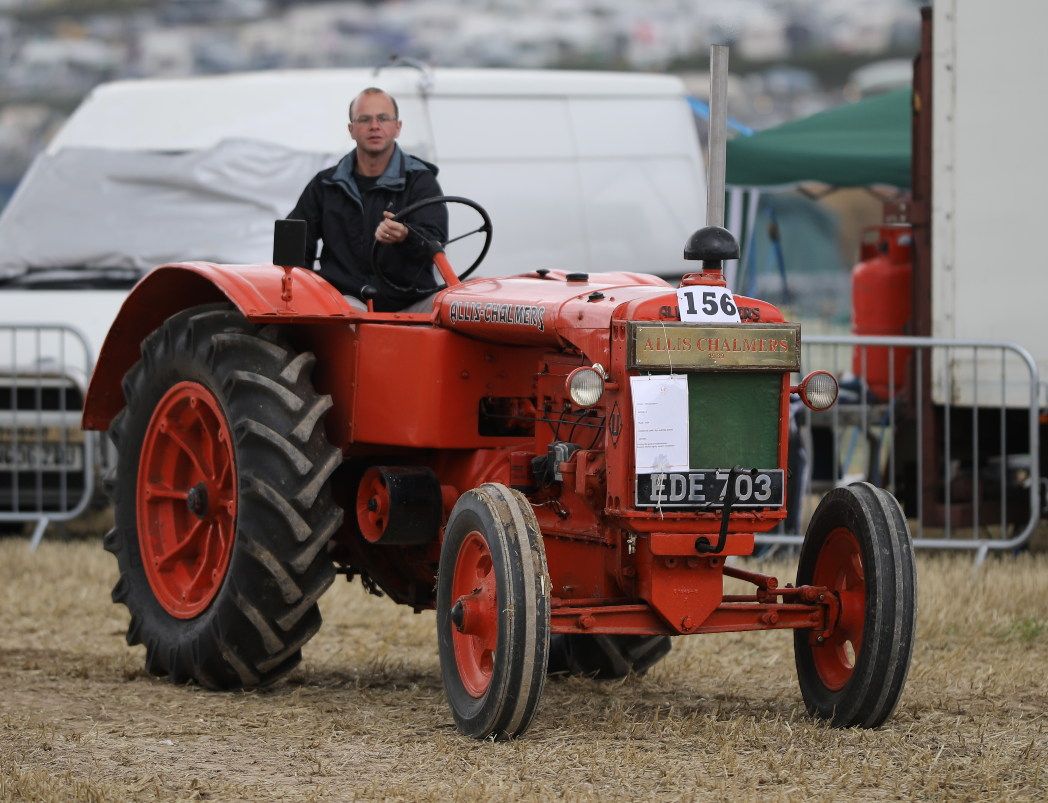 Photo of an 1939 Allis-Chalmers U tractor. 2018 GDSF program number 156